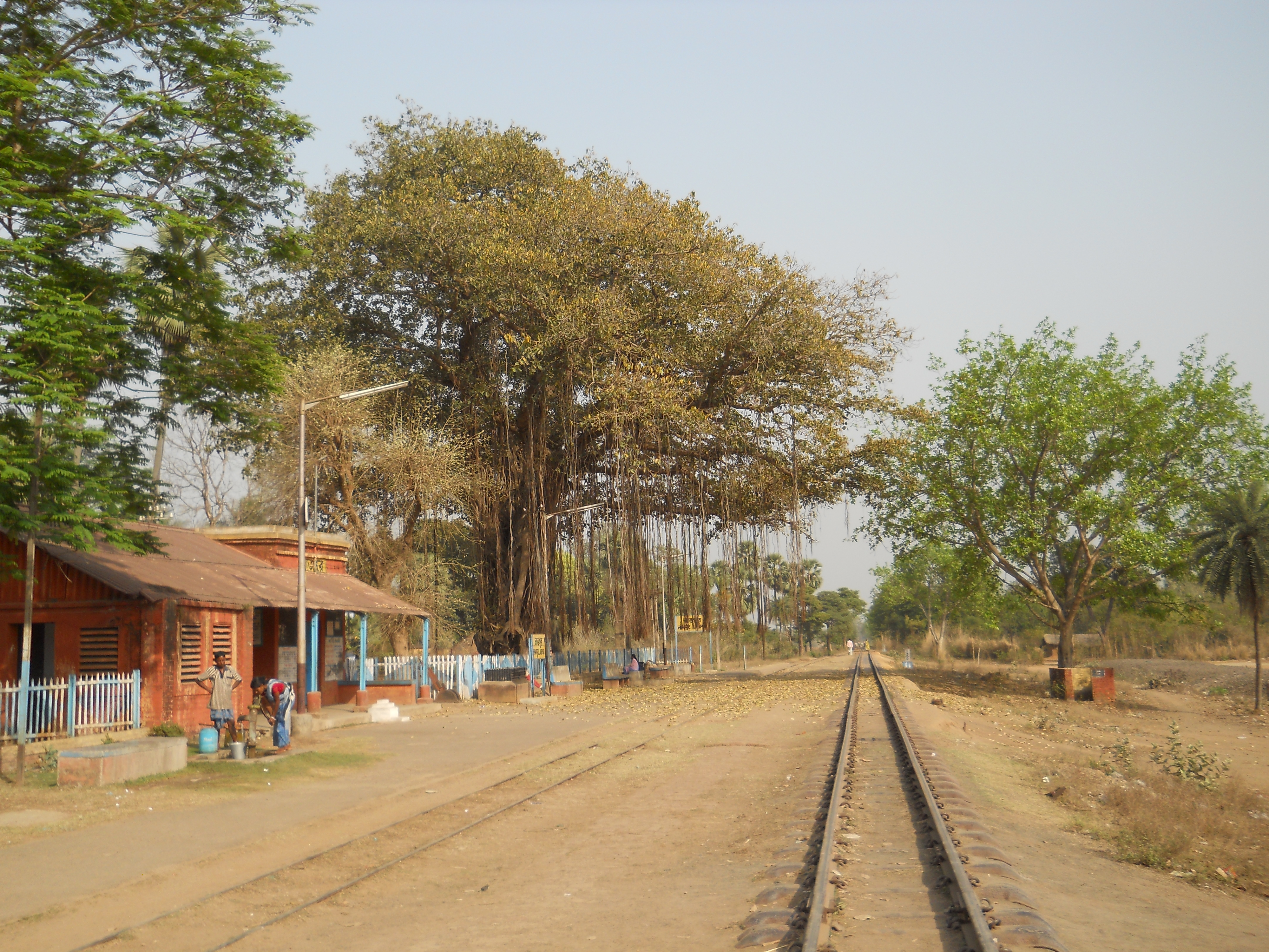 Katwa to Ahmedpur Narrow gaugue railway, Labhpur railway station, Birbhum.